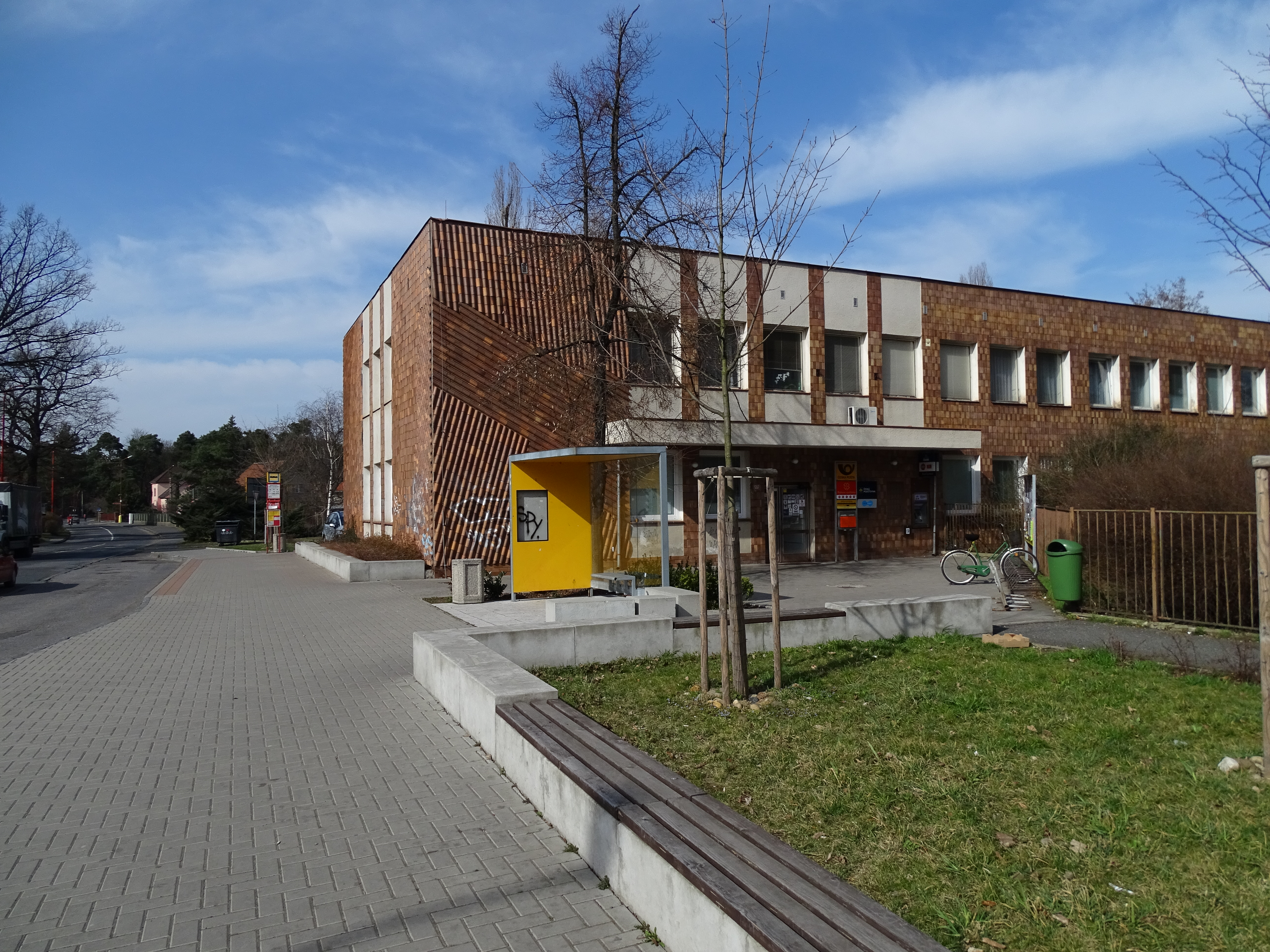 Neratovice, Mělník District, Central Bohemian Region, Czech Republic. Mládežnická 1357, a post office, bus stop Neratovice, Nám. Republiky.